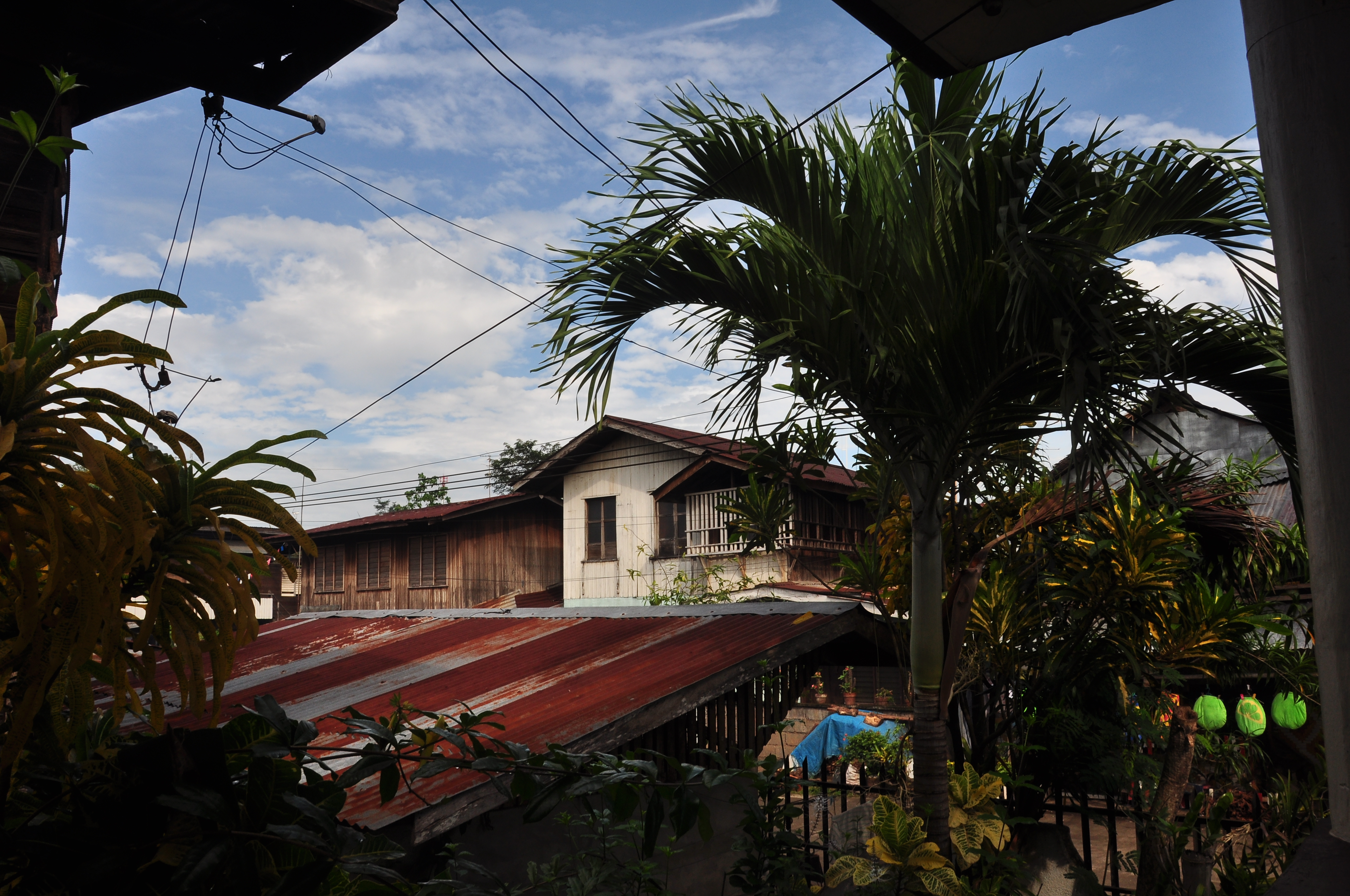 Purok 8, Upper Jasan